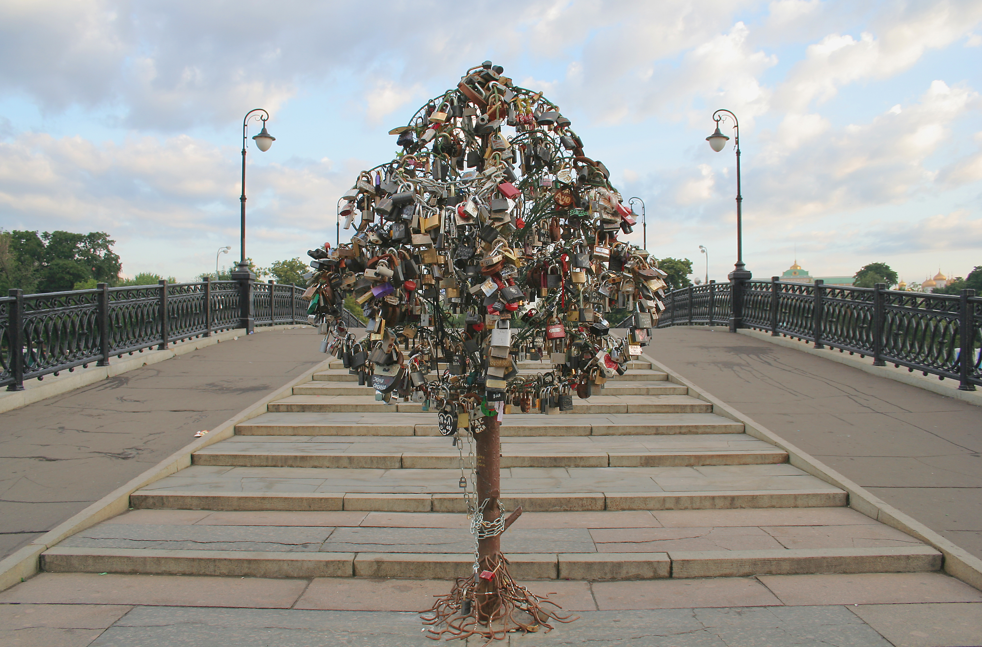 Tree with love padlocks on a bridge over the Vodootvodny Canal in Moscow